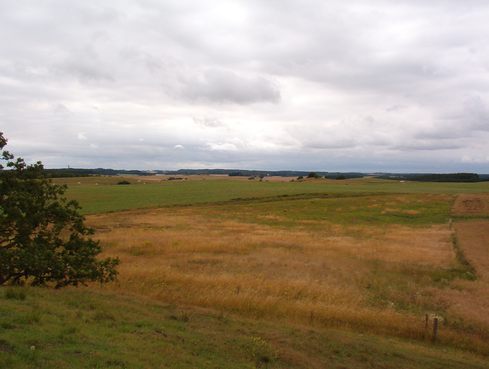 View from southern Skåne, countryside on the border between Trelleborg kommun and Skurup kommun. date: july 2005